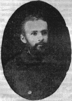 The Russian revolutionary Nikolai Aaronsky.